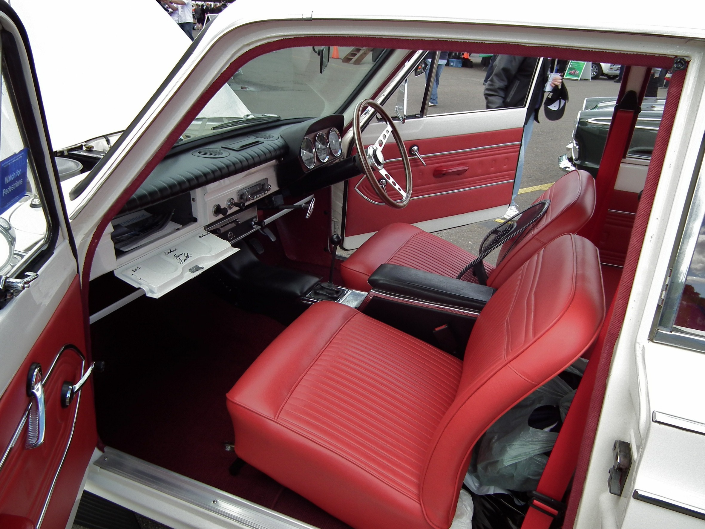 1964 Ford Cortina Mk I GT sedan interior. Taken at the 2012 New South Wales All Ford Day, held at Sydney Motorsport Park (formerly Eastern Creek Raceway).